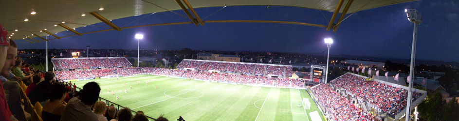 Panorama View of Hindmarsh Stadium at night (Adelaide United vs Perth Glory 14-JAN-2009). Attendance is 13,847